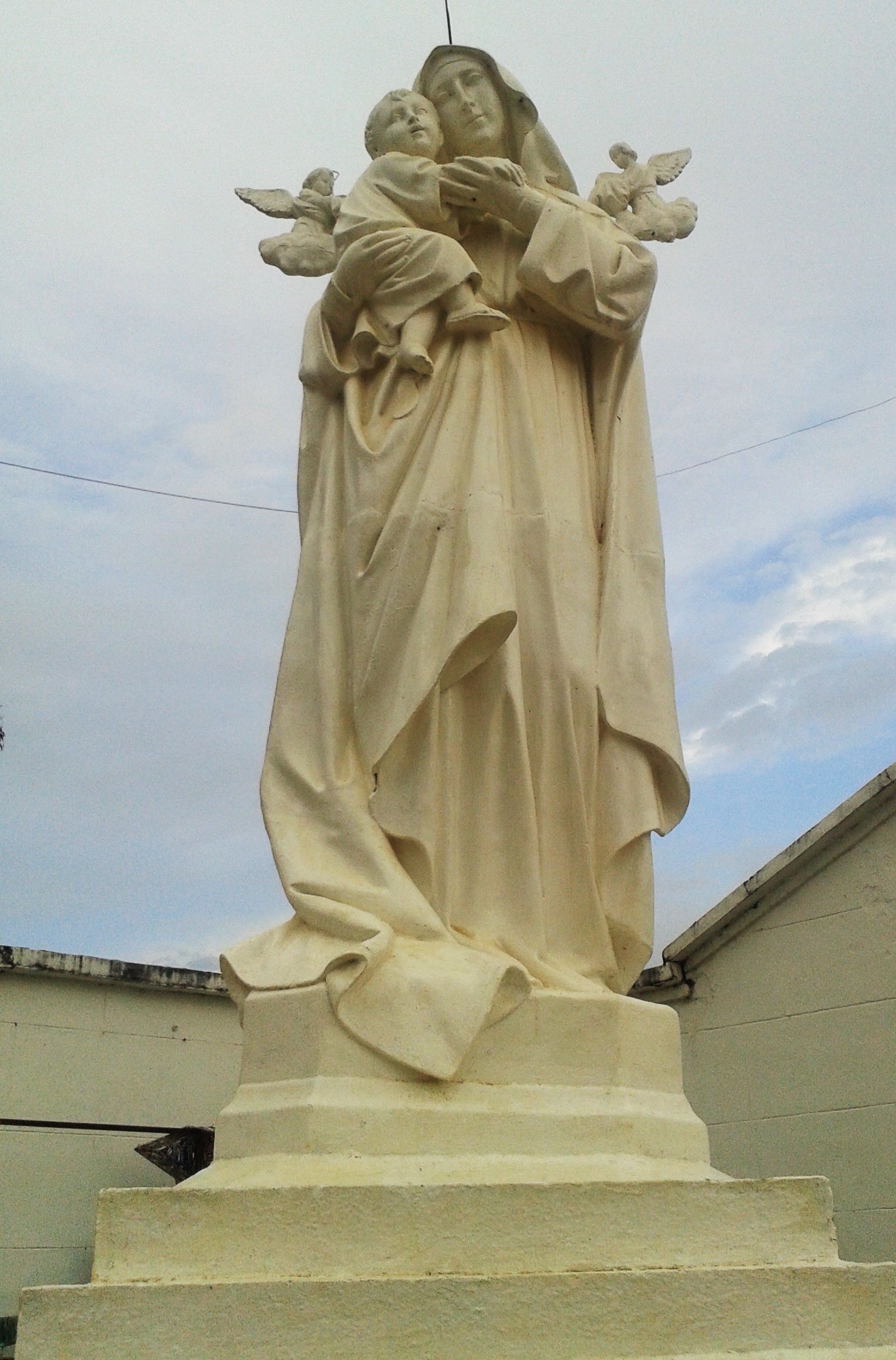 Nuestra Señora Del Perpetuo Socorro, Hoyorrico (Santa Rosa de Osos)